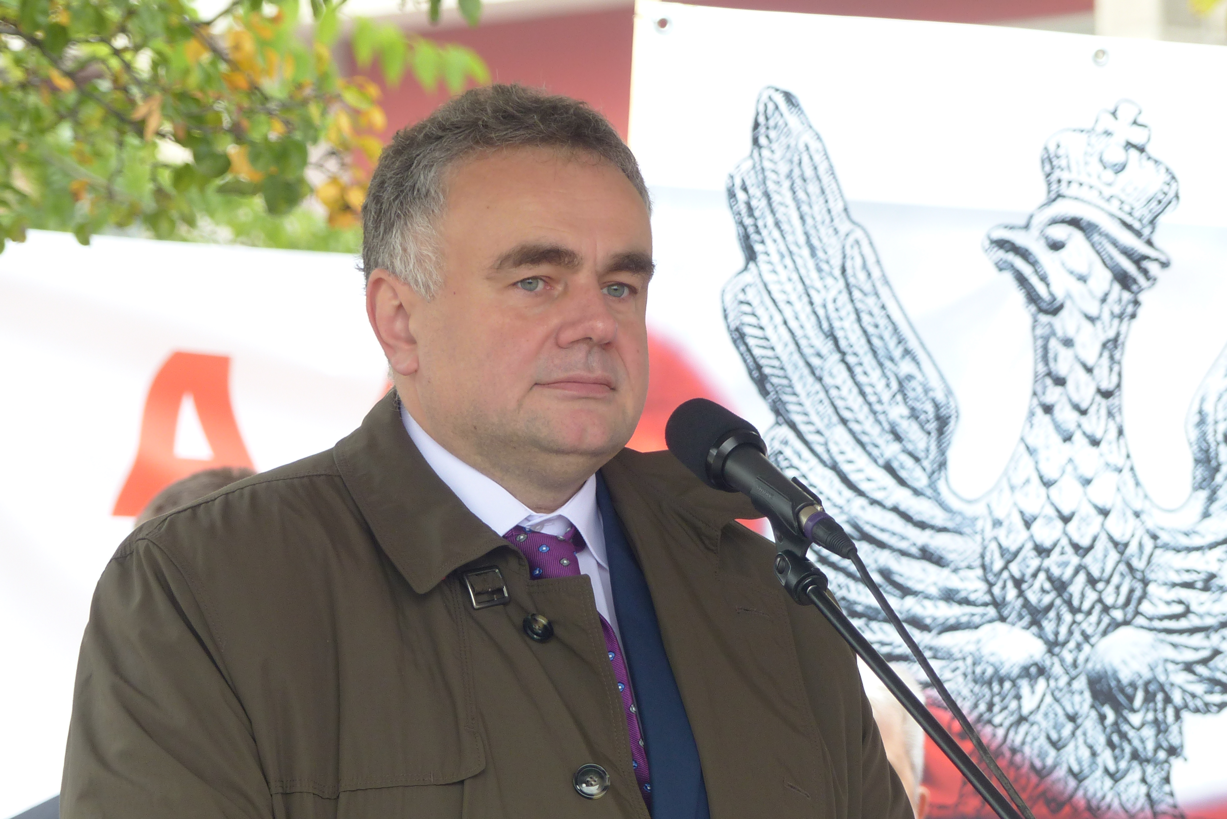 Taken on Sunday, the 23rd of October, 2016. Bem tér, Budapest, Hungary. Central Europe. Andrzej Duda speaking to the members of Civil Összefogás Fórum.